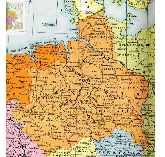 Saxony about 700AD.